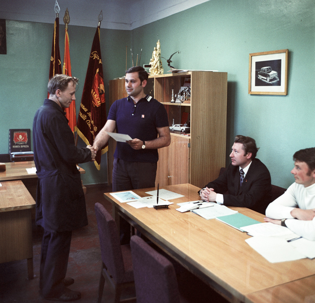 “Komsomol Committee Secretary Gorodetsky handing over a merit certificate to Mikhailov, mechanic of press room number one”. Komsomol Committee Secretary Gorodetsky handing over a merit certificate to Mikhailov, mechanic of press room number one, for active participation in technical creativity of youth. Lenin Komsomol Automobile Plant (AZLK).